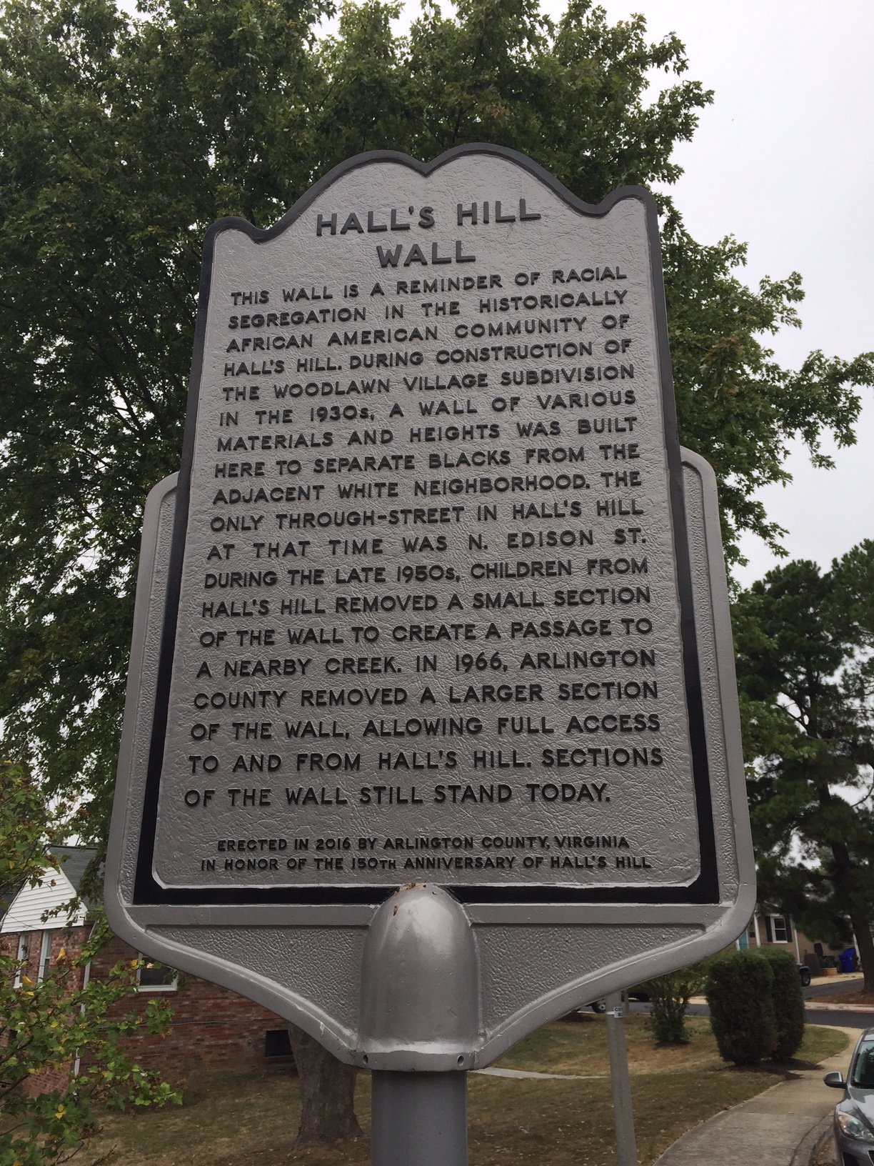 Halls Hill Arlington Virginia Historical Marker